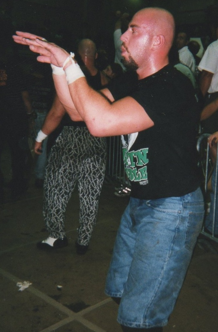 A photograph of Justin Credible taken at this show , October 4, 1998.